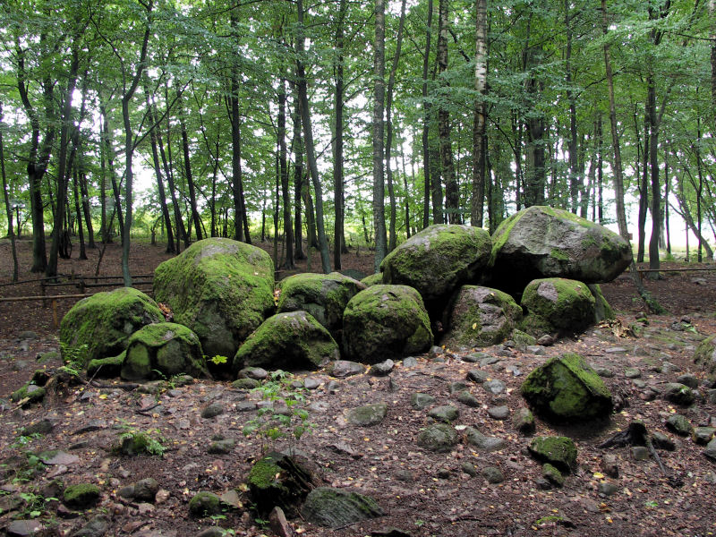 Borkowo - megalith grave